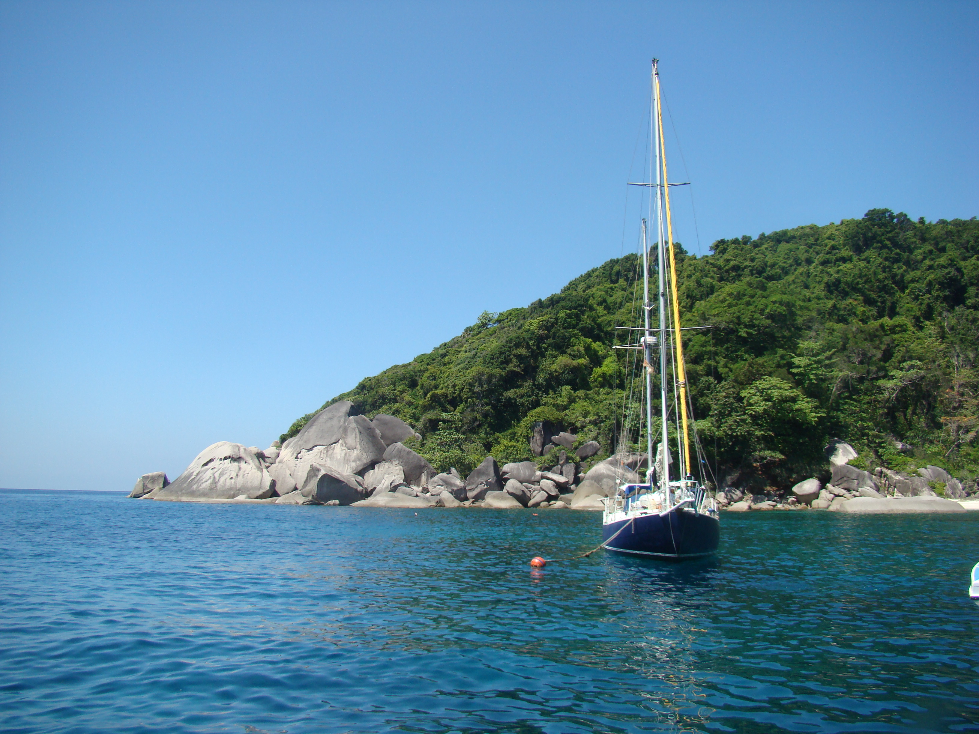 The yacht at coast of islands Mu Ko Similan